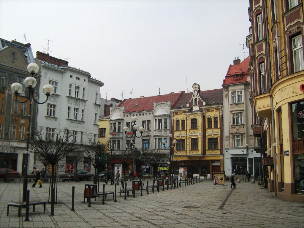 Jirásek Square (Kuří rynek) in Ostrava